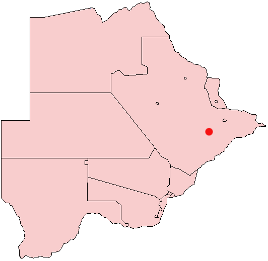 Palapye, Botswana Location Map; created with the GIMP. Made by User:Acntx.